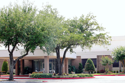 Cenikor long-term residential treatment facility in Deer Park, TX.